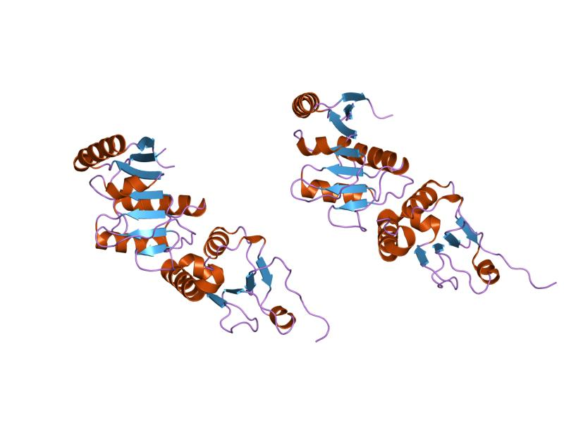 Cartoon representation of the molecular structure of protein registered with 1em8 code.